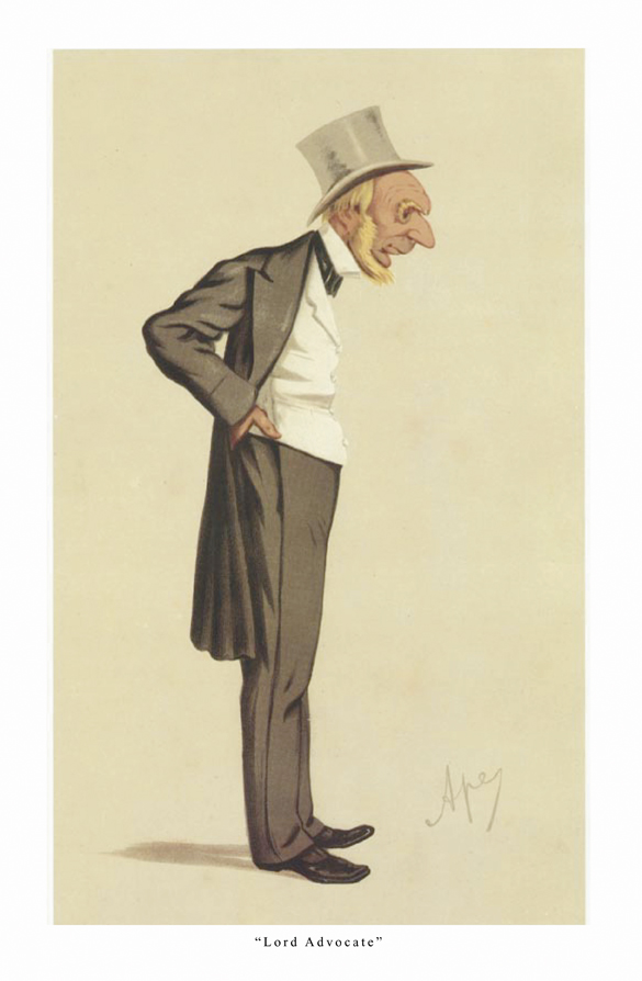 Caricature of Edward Strathearn Gordon (1814-1879). Caption read "Lord Advocate".